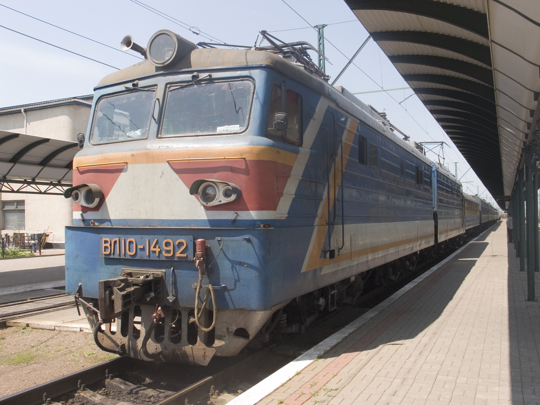 Electric locomotive VL10 in Chop, Ukraine.